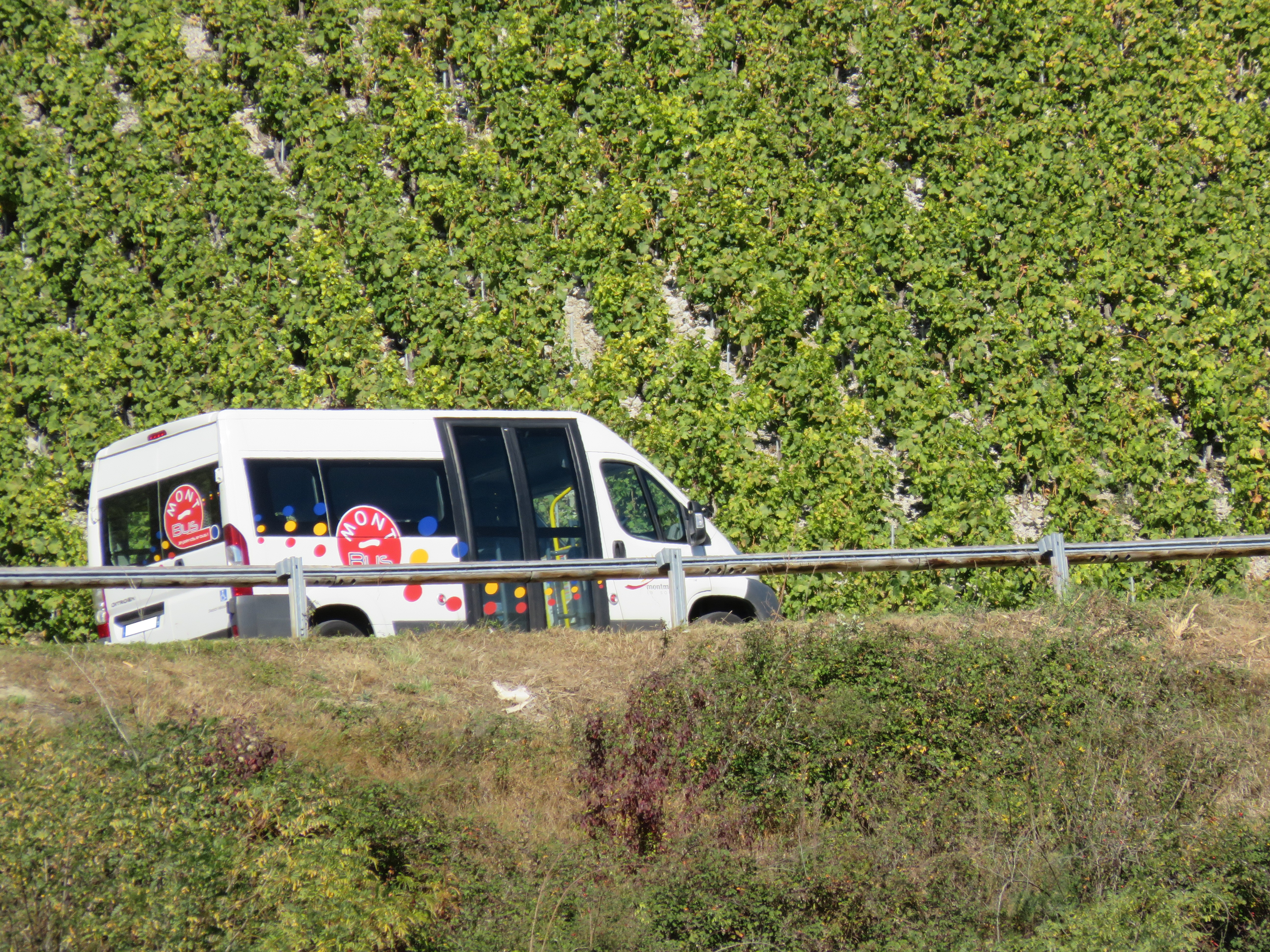 A Citroën Jumper (City of Montmélian) on the shuttle Mont-Bus, in the Chemin de Beauvoir (Montmélian, France) on October 11, 2017.